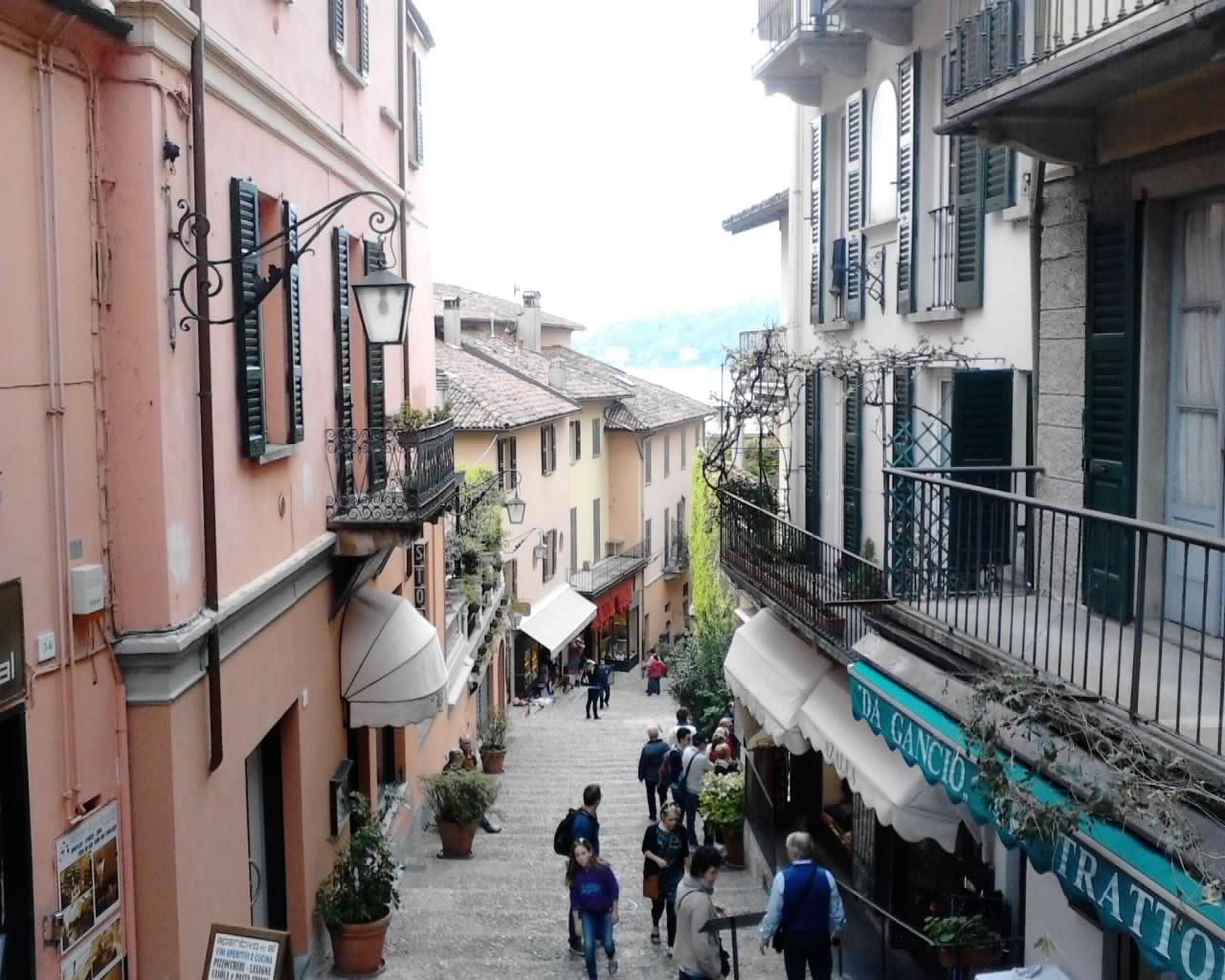 Centre of Bellagio ITALY